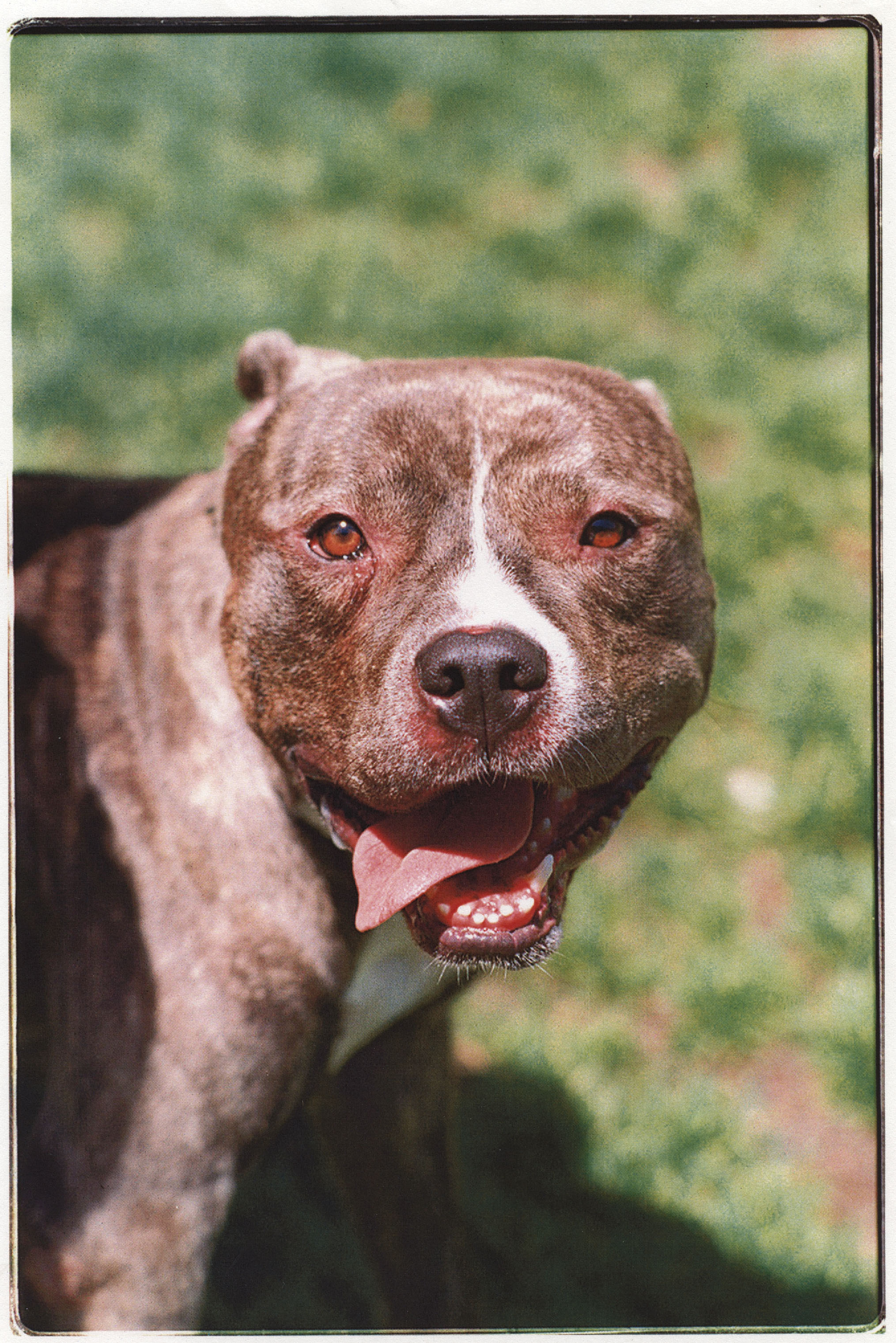 Pit bull with cropped ears at SF Animal Care and Control